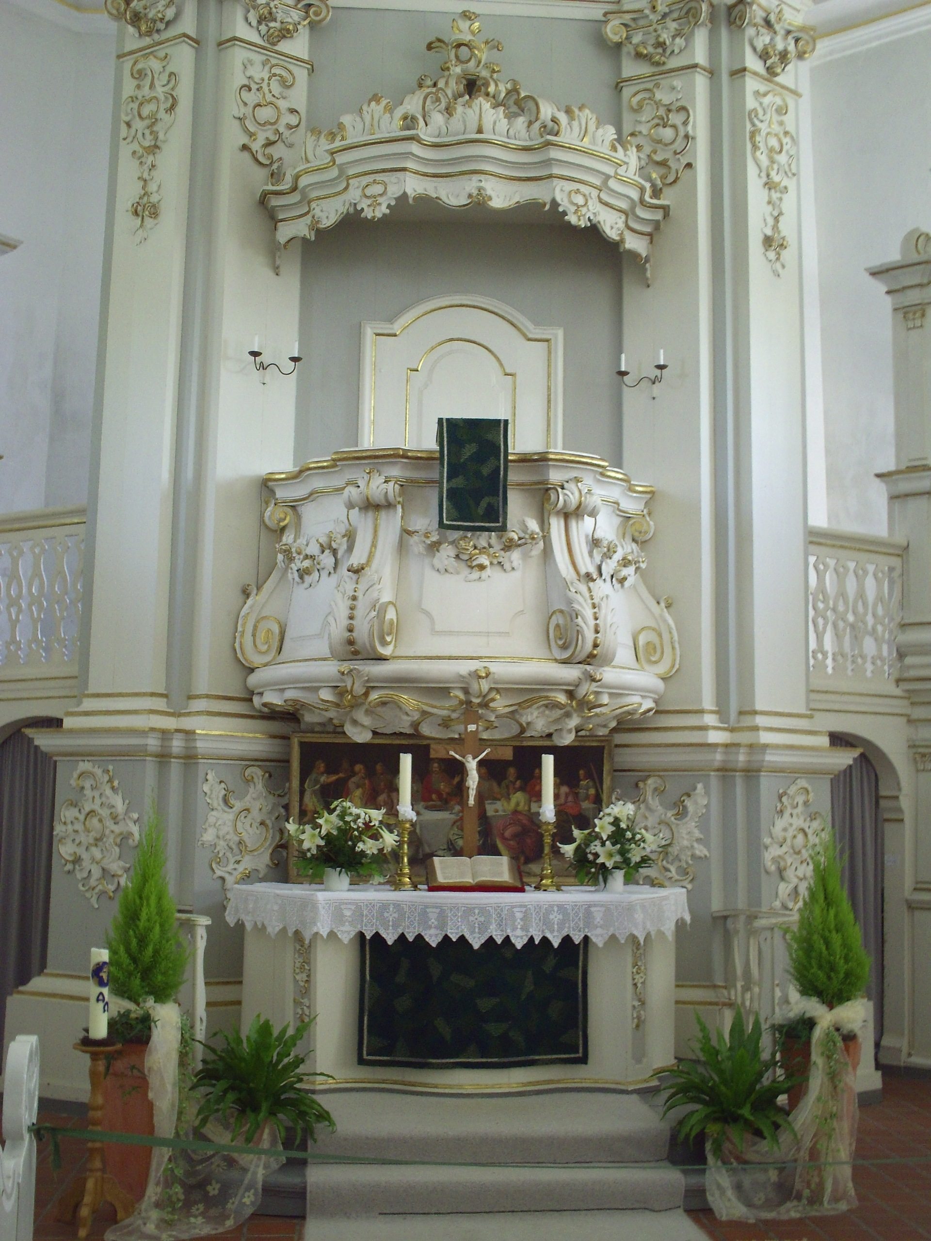 Altar and pulpit of the St. Petri Church in Osten, district of Cuxhaven, Lower Saxony, Germany